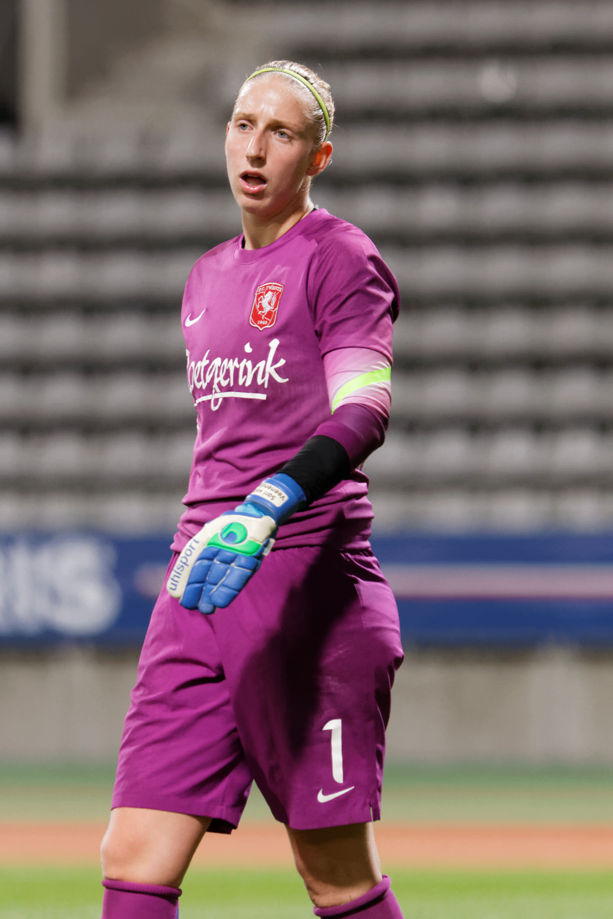 UEFA Women's Champions League, PSG - Twente, 15 October 2014